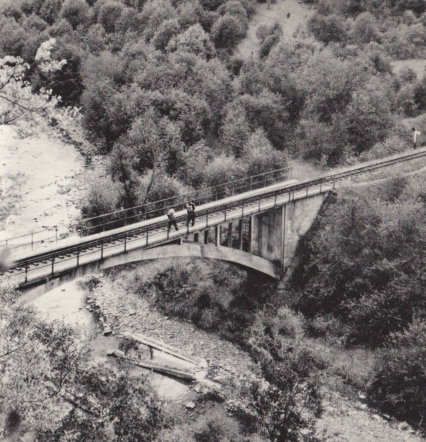 Bieszczadzka Forest Railway - bridge over Osława river near Duszatyn